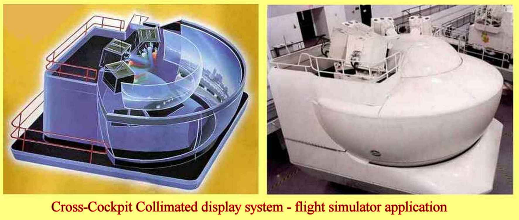 Cross-Cockpit Collimated Display System - Flight Simulator diagram and real example